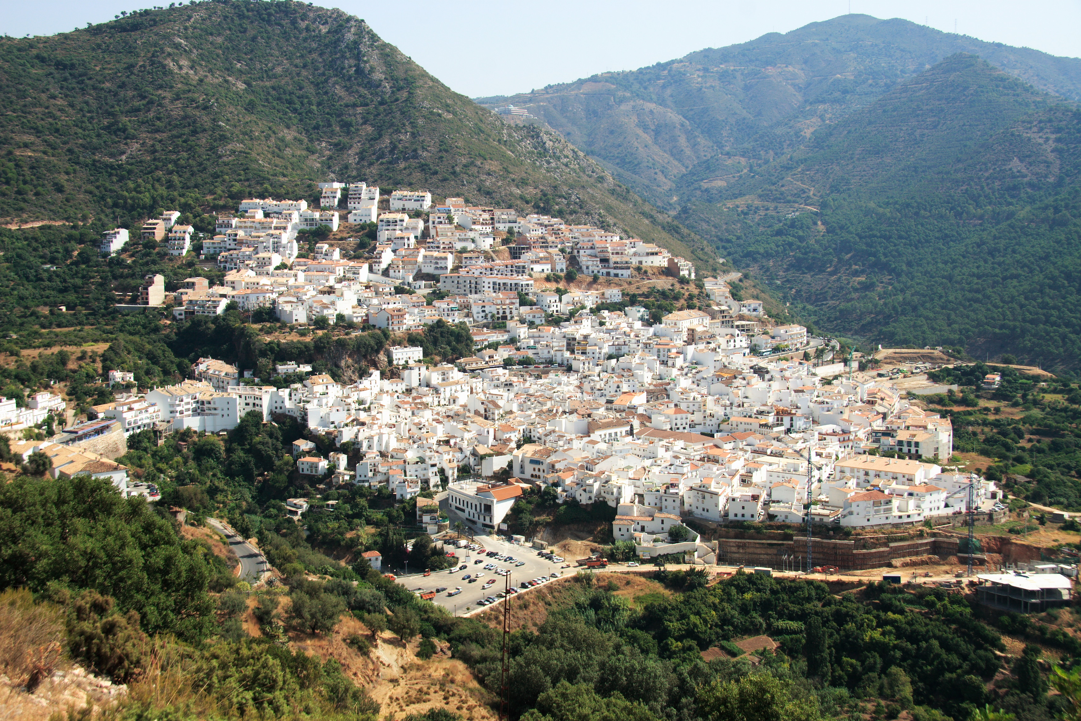 Picture of Ojen, Spain